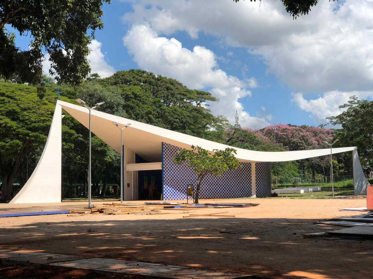 Capilla de Nuestra Señora de Fatima Brasilia